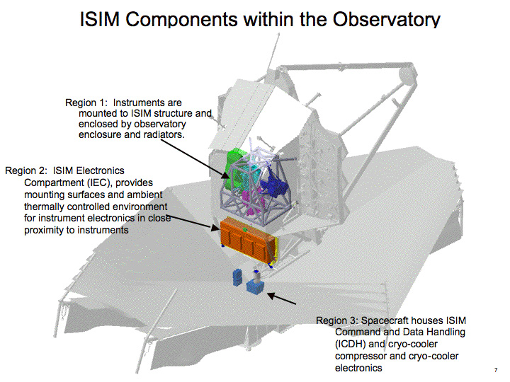 ISIM suddivision: instruments, command and data handler, cryogenic control